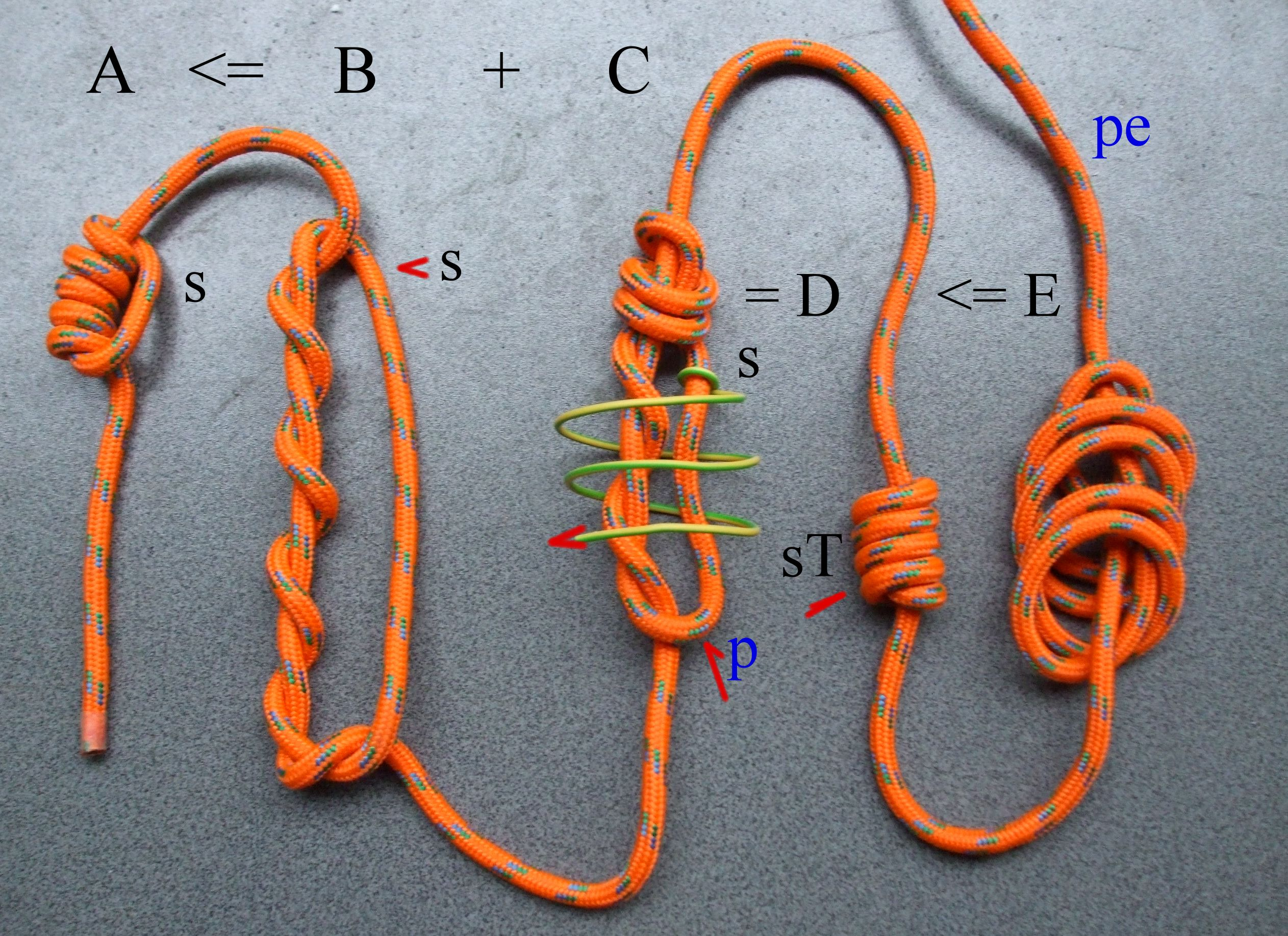 Howdo 2 5x Knot